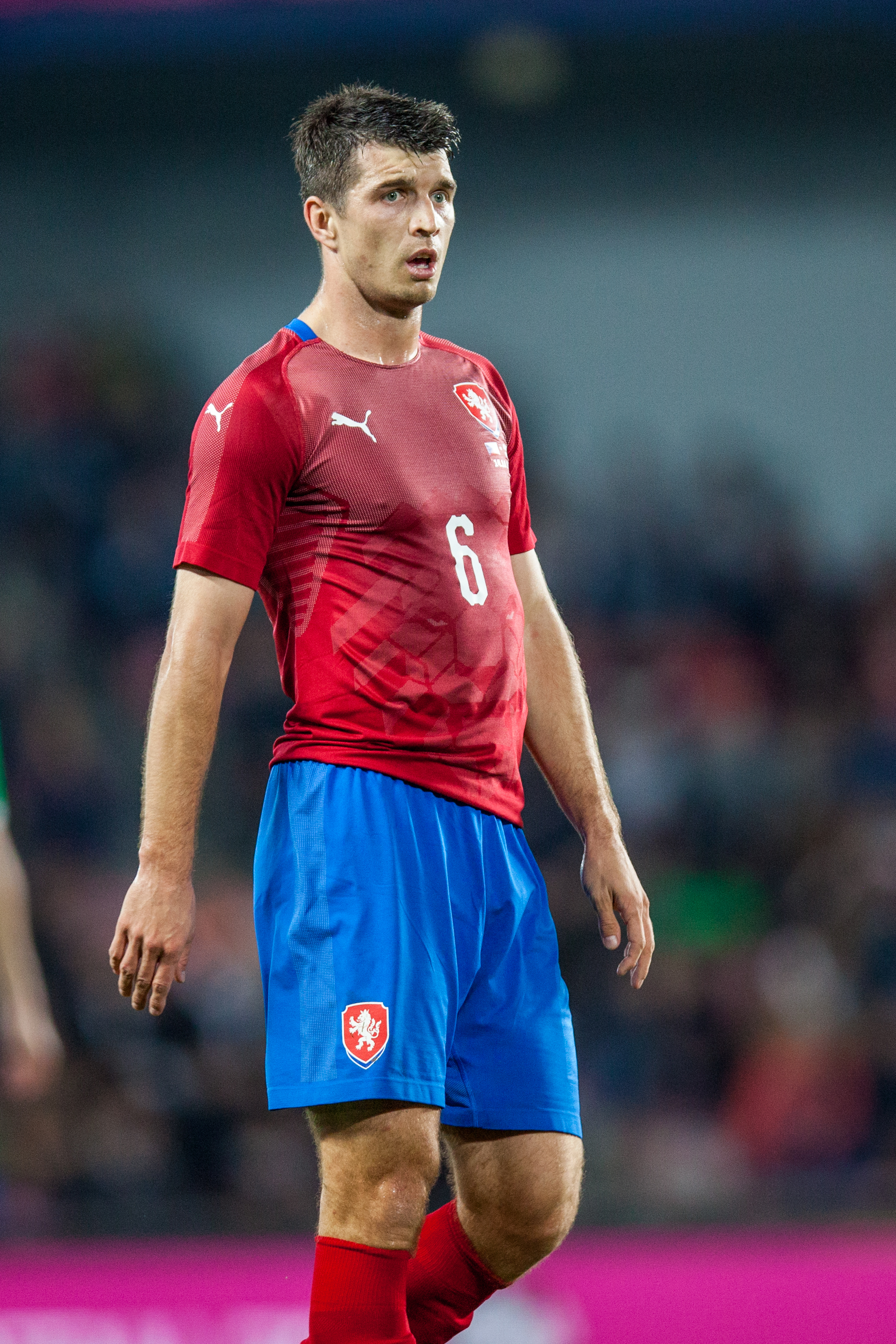 Ondřej Kúdela in an international friendly match between Czech Republic and Northern Ireland (2:3), Stadion Letná (Prague) 2019-10-14 The making of this work was supported by Wikimedia Austria. For other files made with the support of Wikimedia Austria, please see the category Supported by Wikimedia Österreich. Personality rights warningAlthough this work is freely licensed or in the public domain, the person(s) shown may have rights that legally restrict certain re-uses unless those depicted consent to such uses. In these cases, a model release or other evidence of consent could protect you from infringement claims.